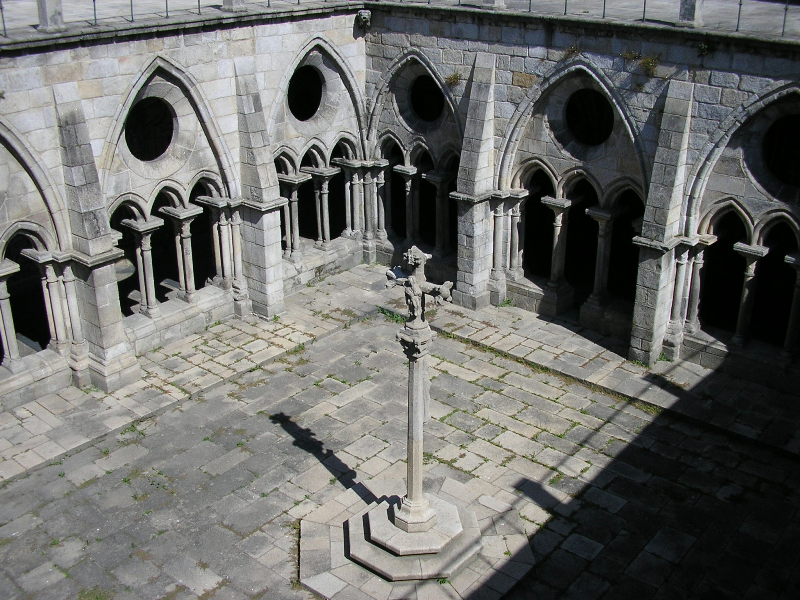 Gothic cloisters of Porto Cathedral (Sé do Porto), Portugal